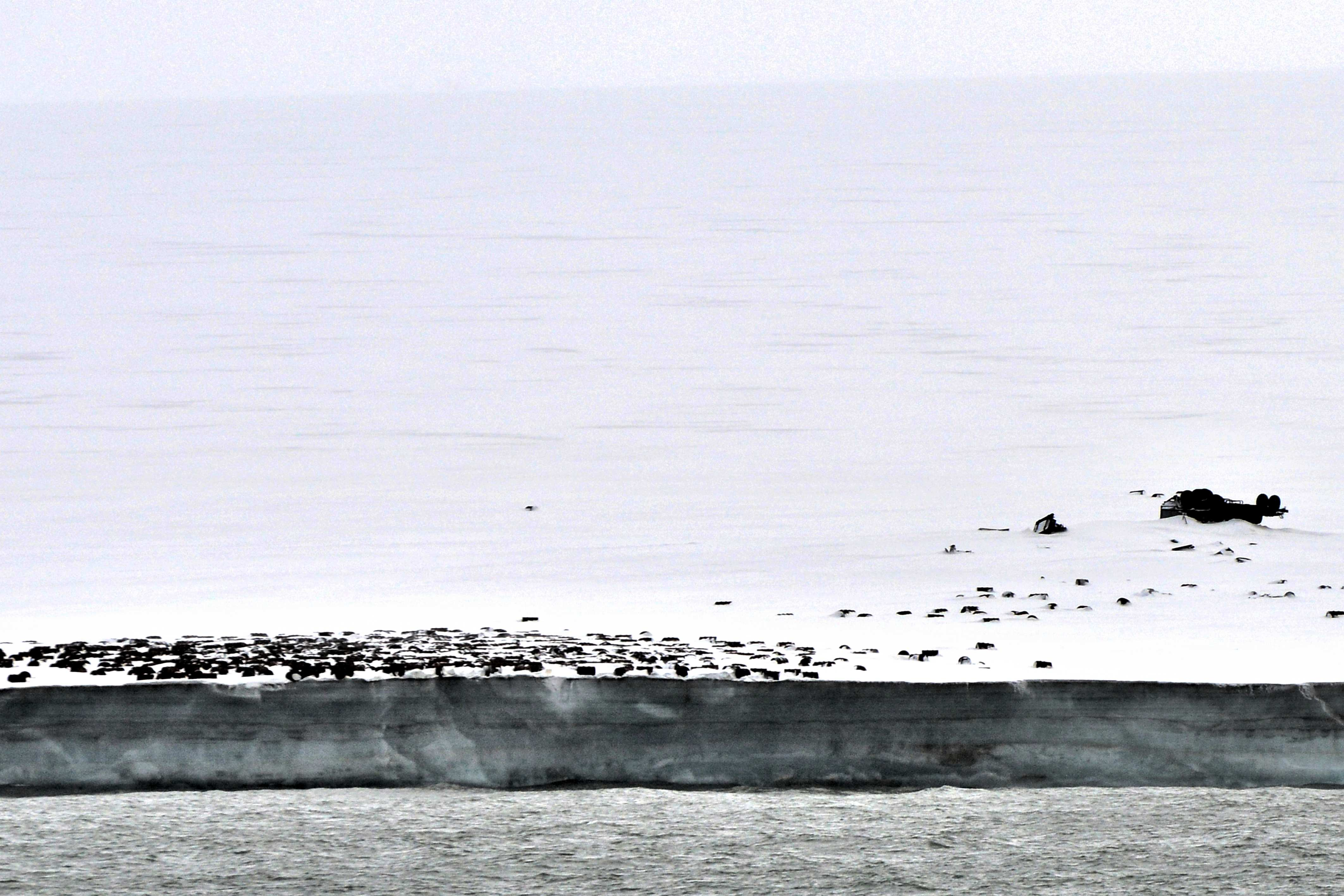 Oil drums at Arctic Cape (Komsomolets Island, Severnaya Semlya, Russia)